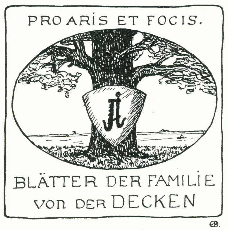 Coat of arms of Decken-family drawing